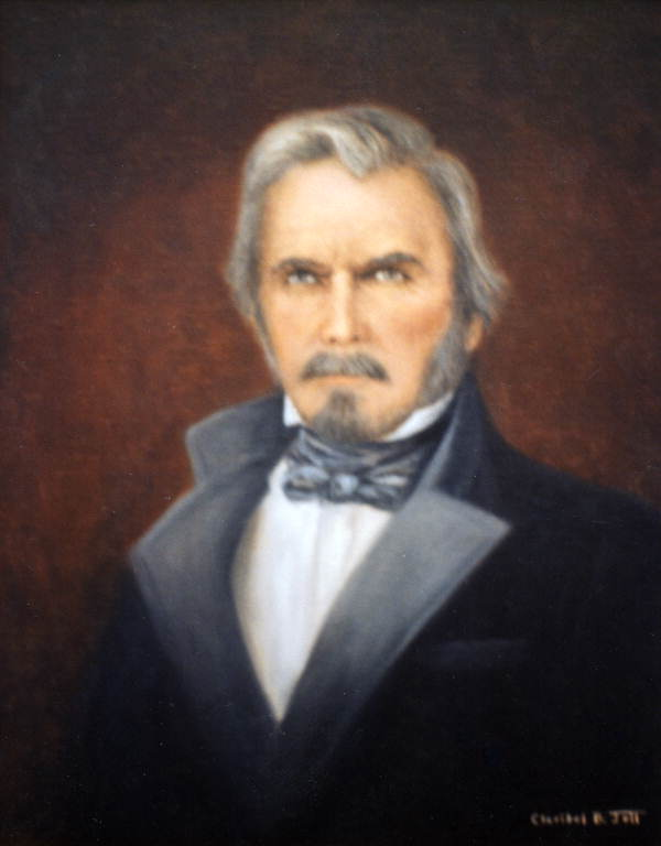 Painted portrait of Florida Supreme Court Justice George W. Macrae - He served on the Florida Supreme Court from January 1, 1847 to January 7, 1848.